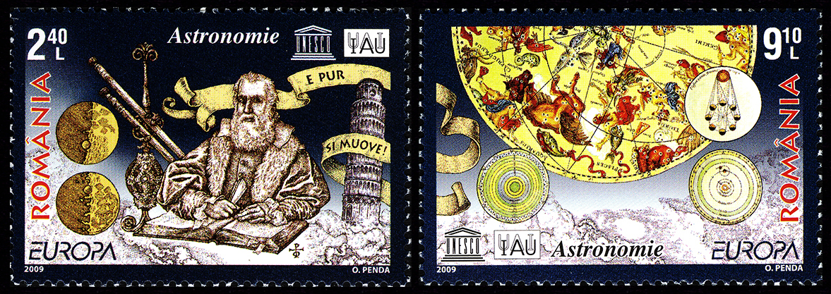 Postage stamps of Romania, 2009. Astronomy. EUROPA Issue